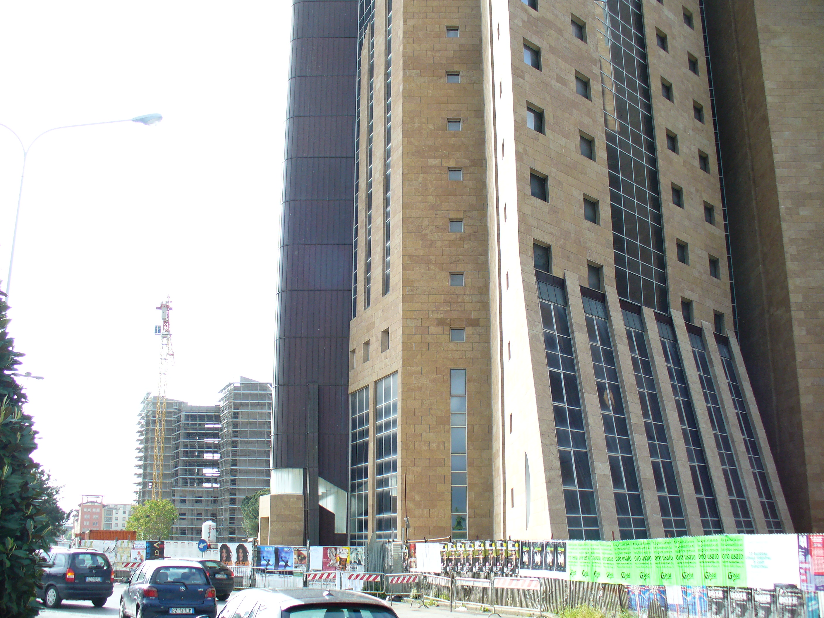 Palazzo di Giustizia (Florence)